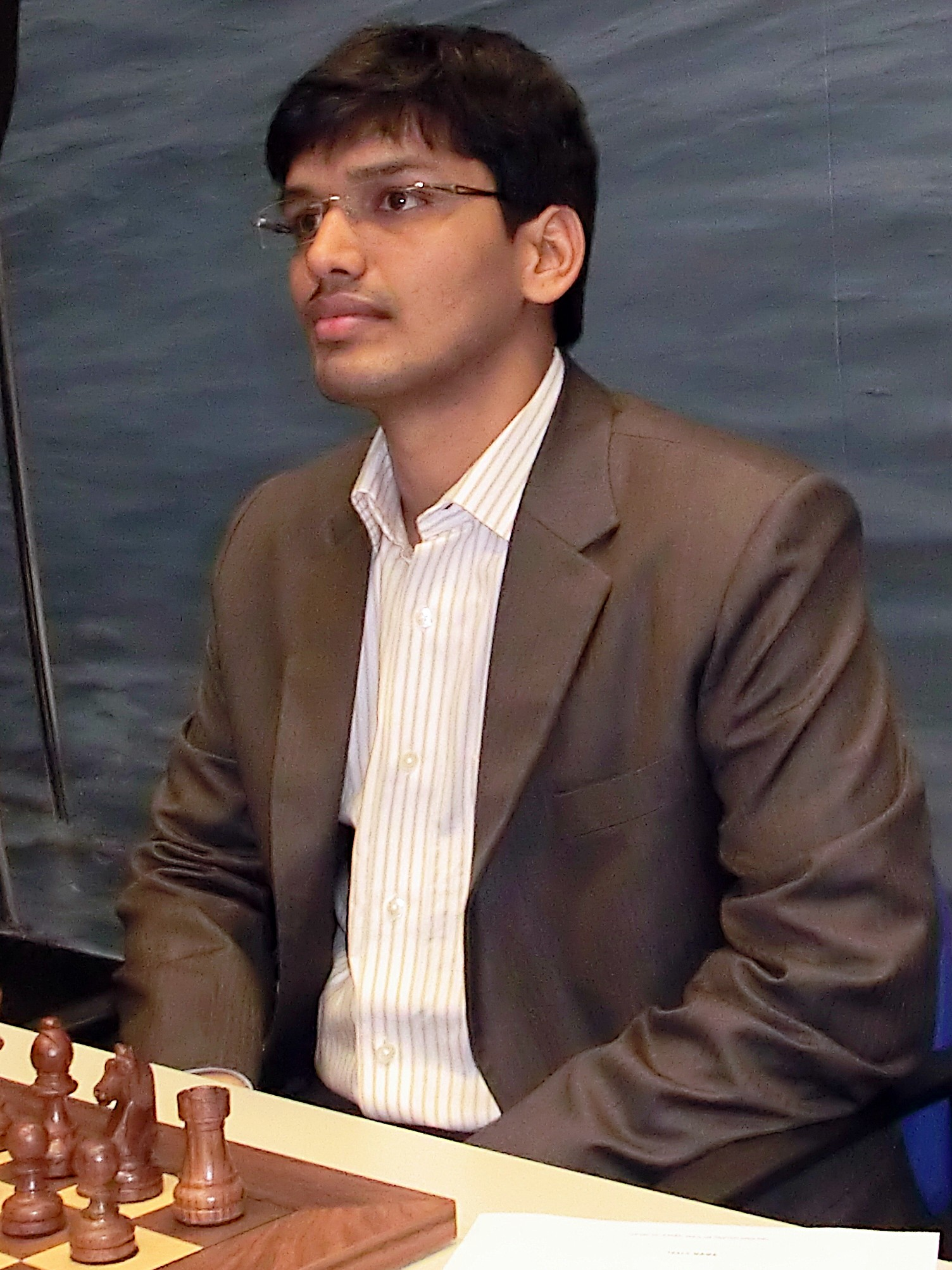 Pentala Harikrishna, chess grandmaster from India